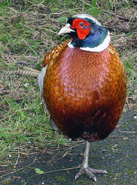 Male Common Pheasant (Phasianus colchicus) Image by ChrisO. Taken at the Wildfowl and Wetlands Trust's bird sanctuary at Washington, Tyne and Wear.